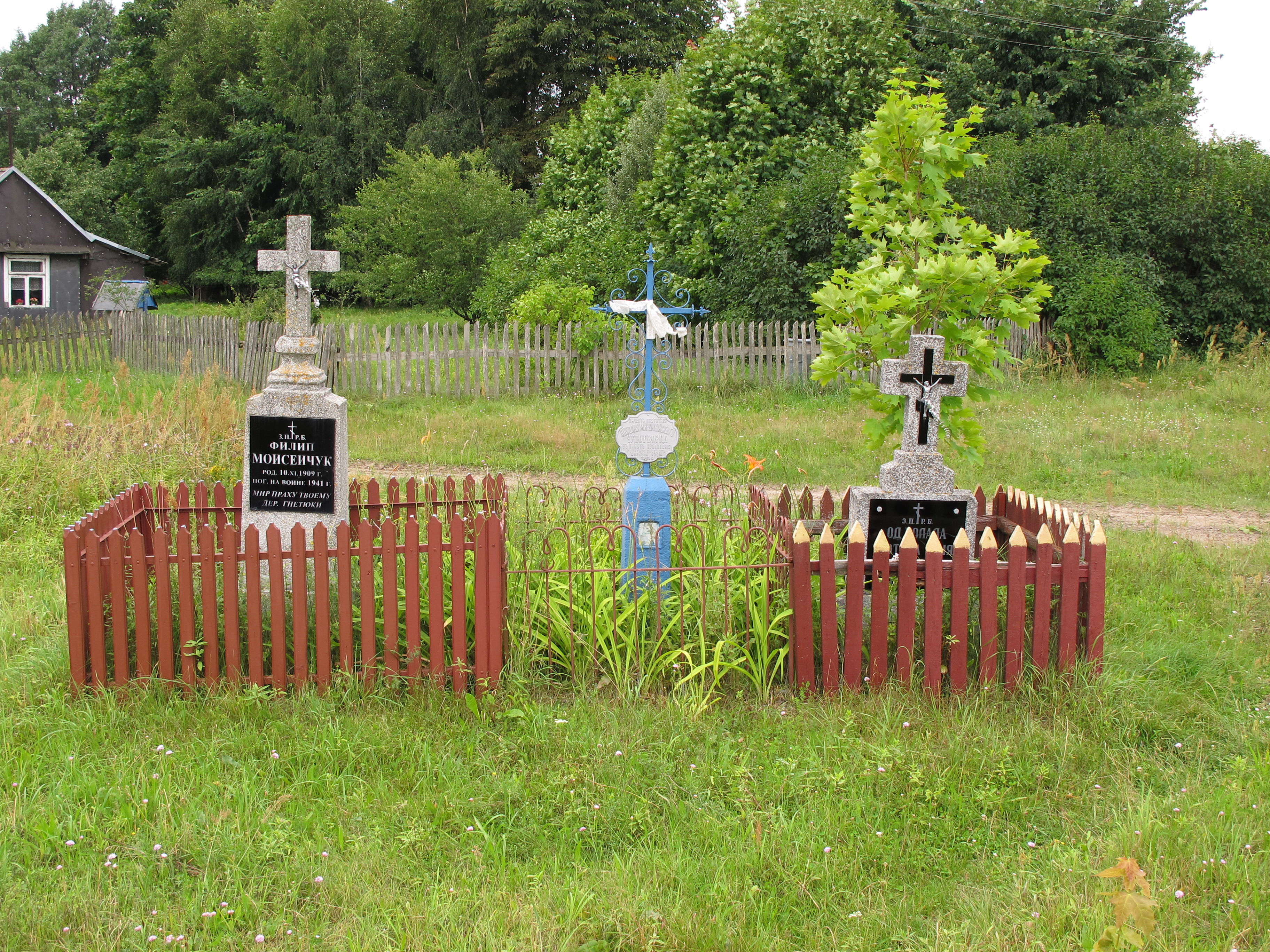 Crosses in the Gnieciuki village, gmina Zabłudów, podlaskie, Poland